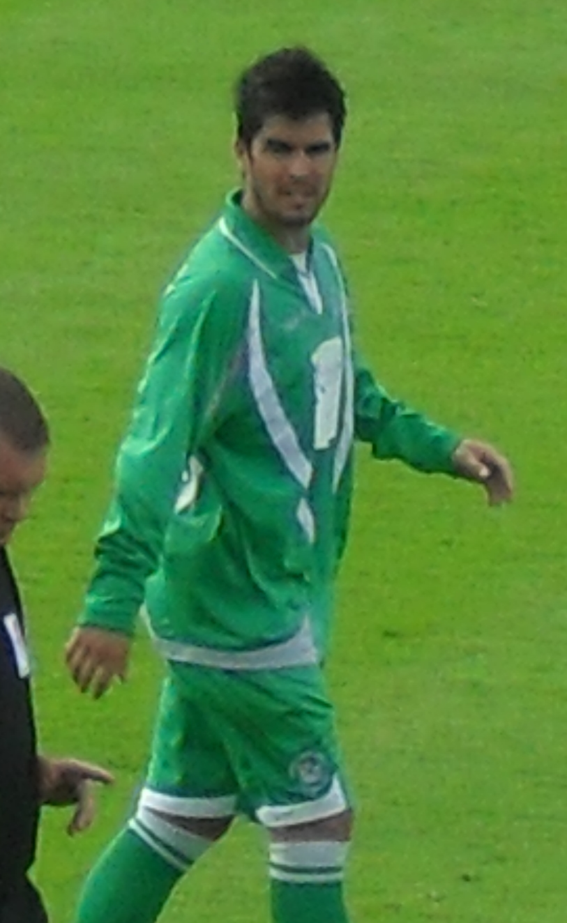 Jon Challinor playing for Forest Green Rovers against York City at Bootham Crescent, York on 15 August 2009